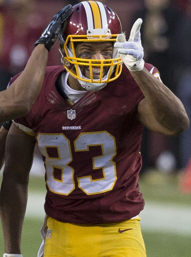 Packers at Redskins Wildcard Game 01/10/16